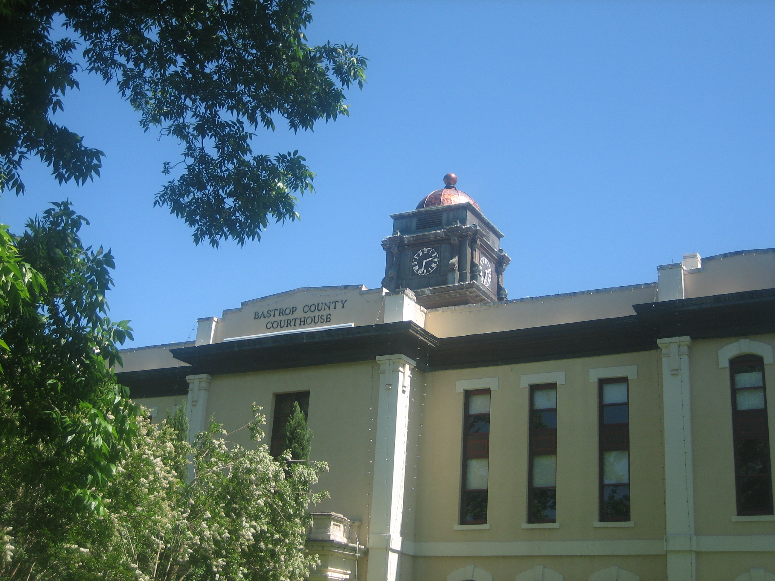 I took photo on May 21, 2009.Billy Hathorn (talk) 02:19, 31 May 2009 (UTC)